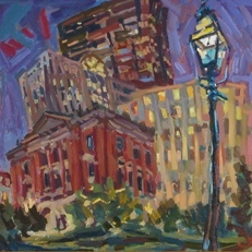 Painting utilizing technique of synthetic impressionism. work created outdoors at night. Observed color. Artist Charles Tersolo. Influence of Chaim Soutine and Van gogh. Expressionist brushwork. Color Harmonies. Distortion and exaggeration of space.